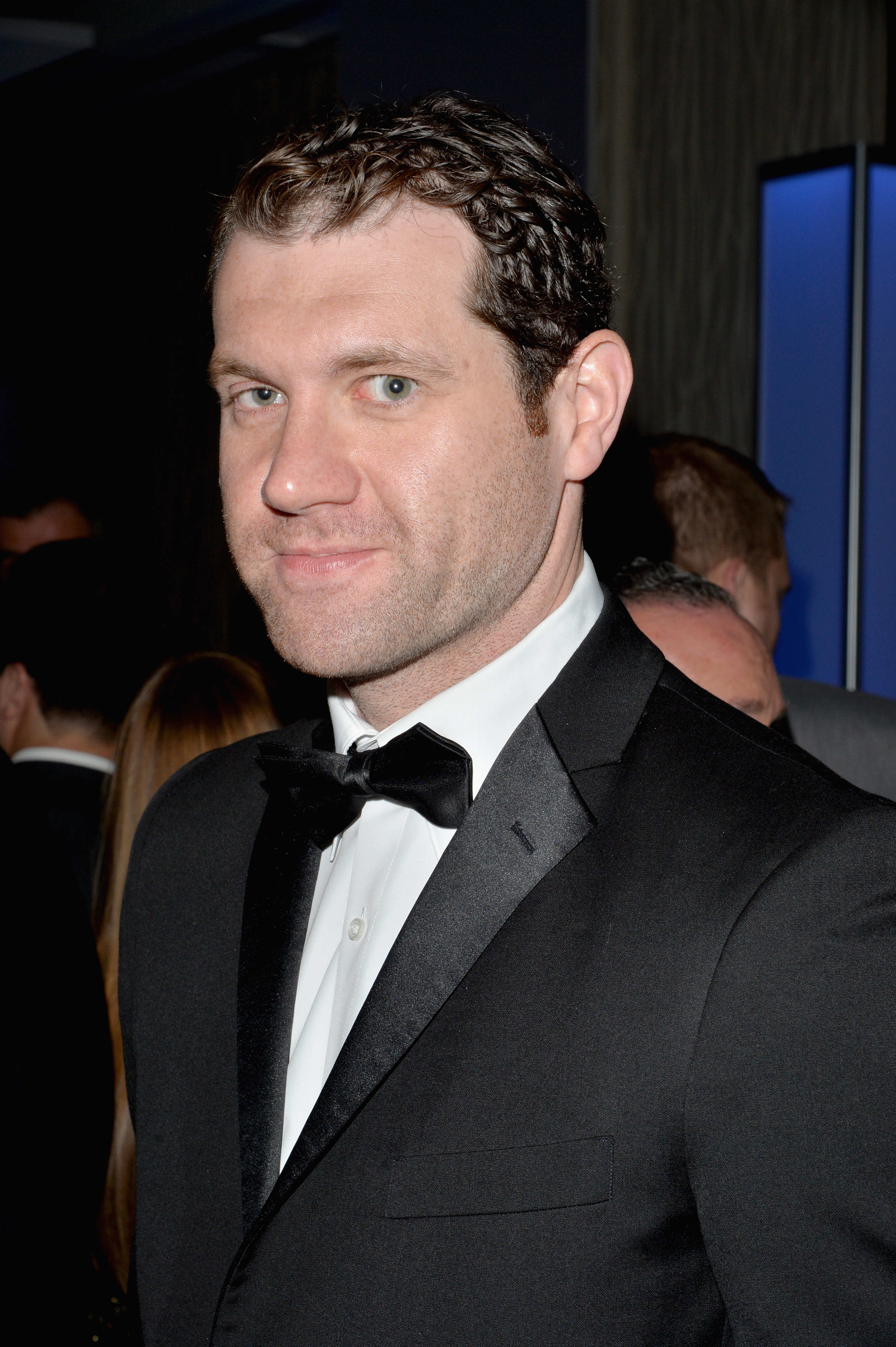 WASHINGTON, DC - MAY 03: Comedian Billy Eichner attends the Yahoo News/ABCNews Pre-White House Correspondents' dinner reception pre-party at Washington Hilton on May 3, 2014 in Washington, DC. (Photo by Andrew H. Walker/Getty Images for Yahoo News)